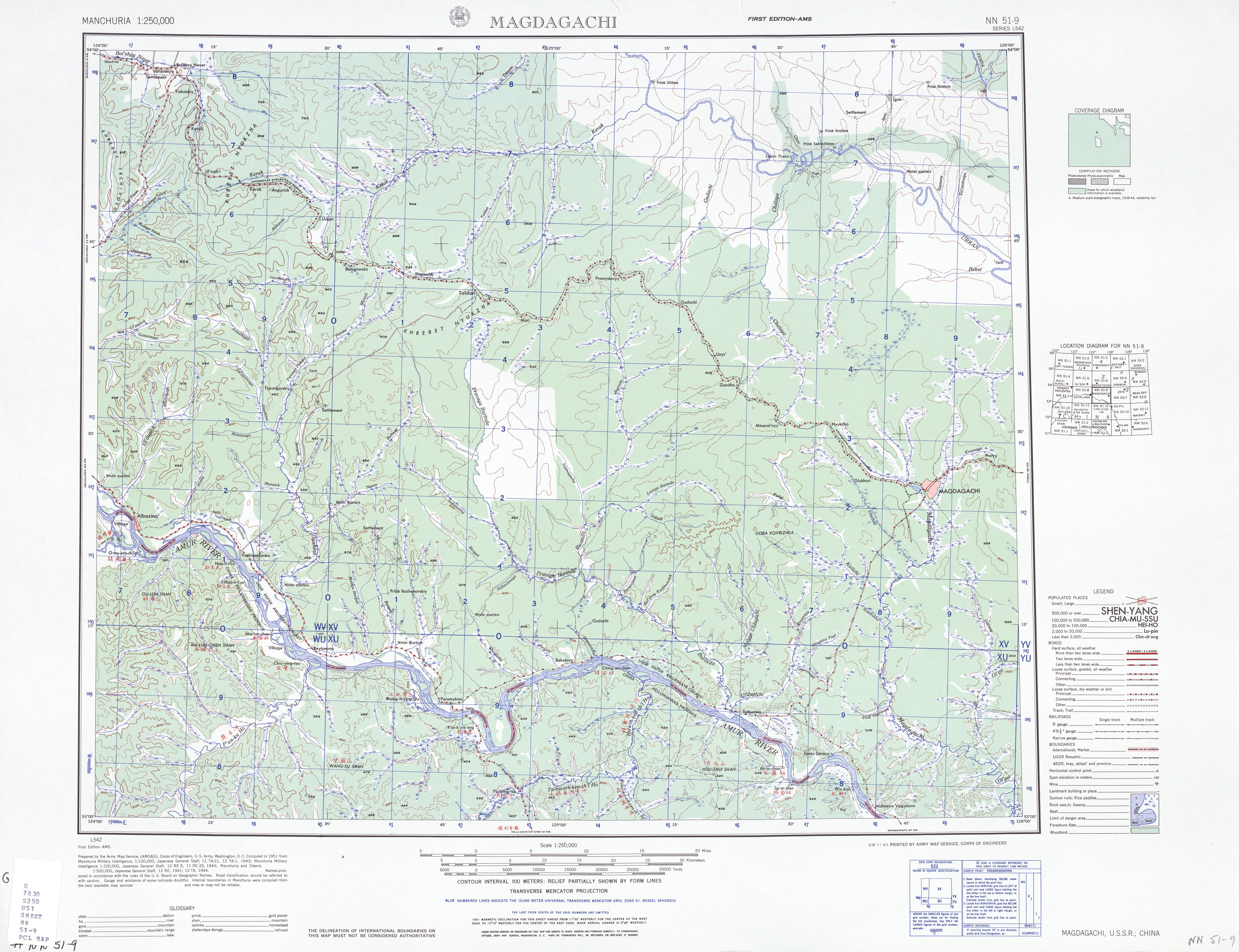 Map of Magdagachi area, USSR (present-day Russia)